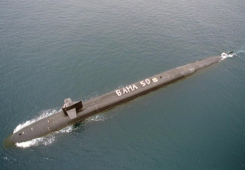 Alabama (SSN-731) crewmembers spell out "'BAMA 50," signifying the completion of the ballistic missile submarine's 50th deterrent patrol, 25 May 2000. US Navy photo # N-7878C-003, by PH1 Mark A. Correa USN, courtesy of the US Navy Chinfo Photo Gallery web site.